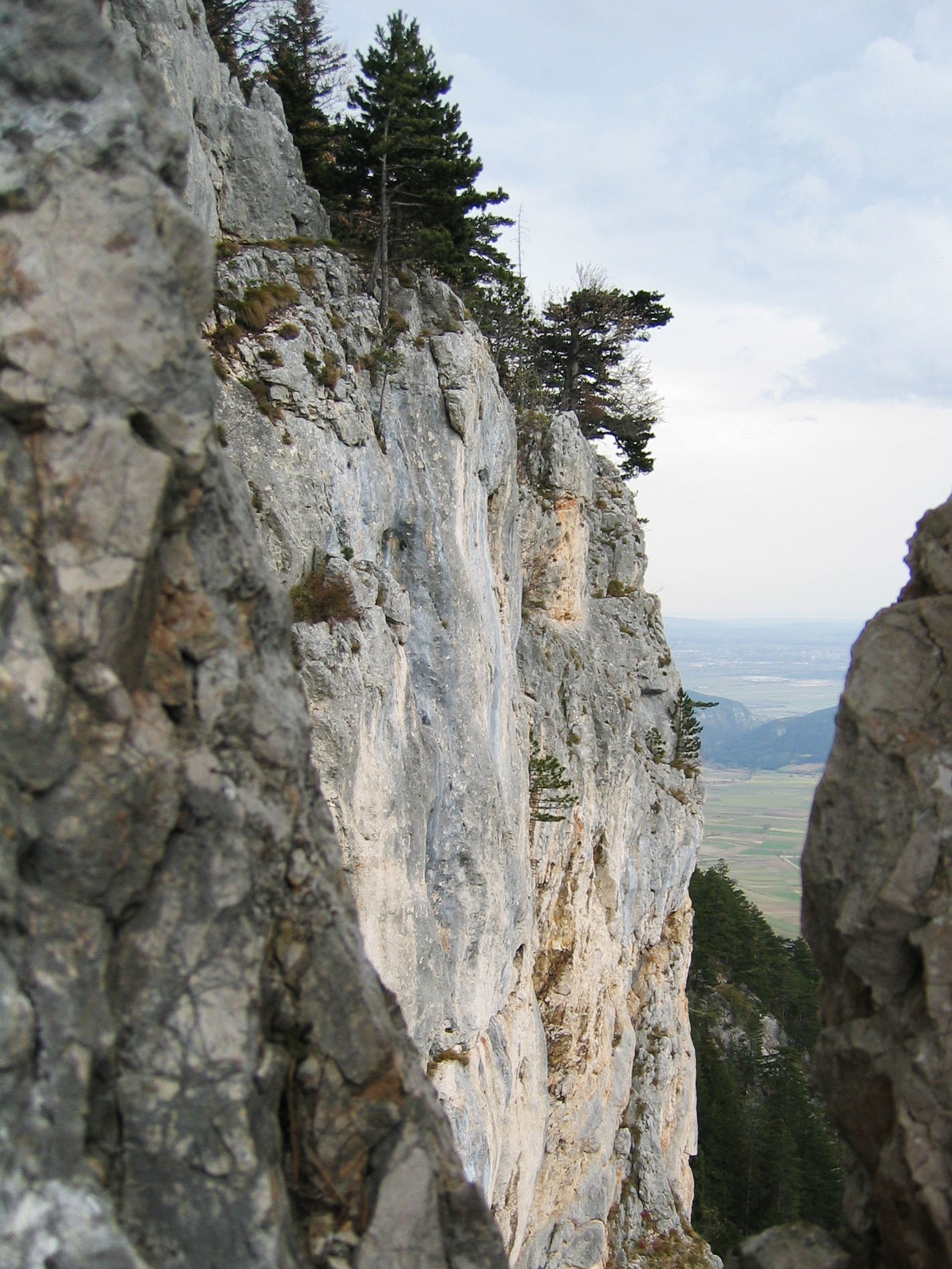 View of the Hochfallwand, a rock wall of the Hohe Wand, Lower Austria (seen from the Via Ferrata Wildenauersteig).